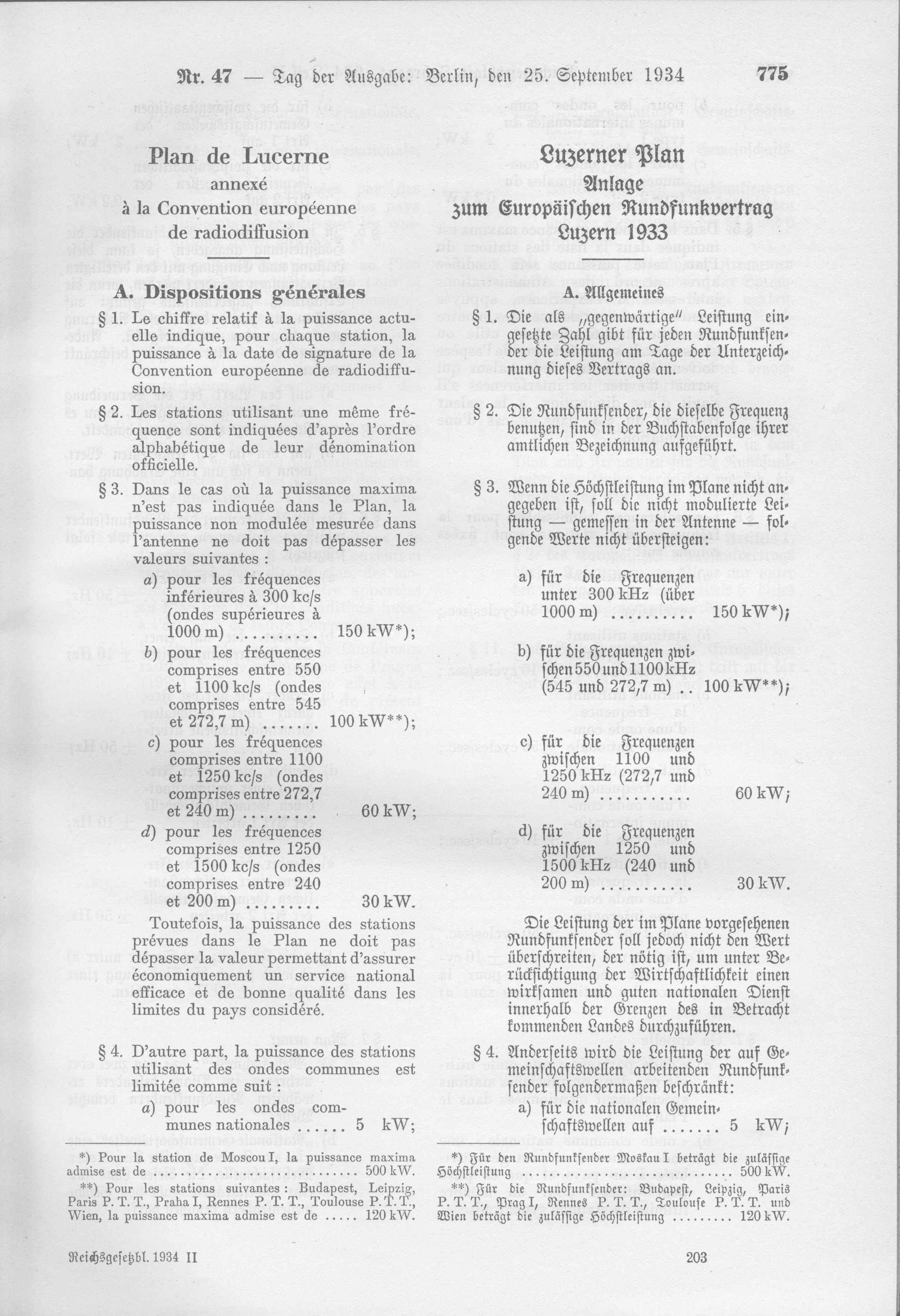 Scan from the Imperial Law Gazette of Germany, 1934, part 2